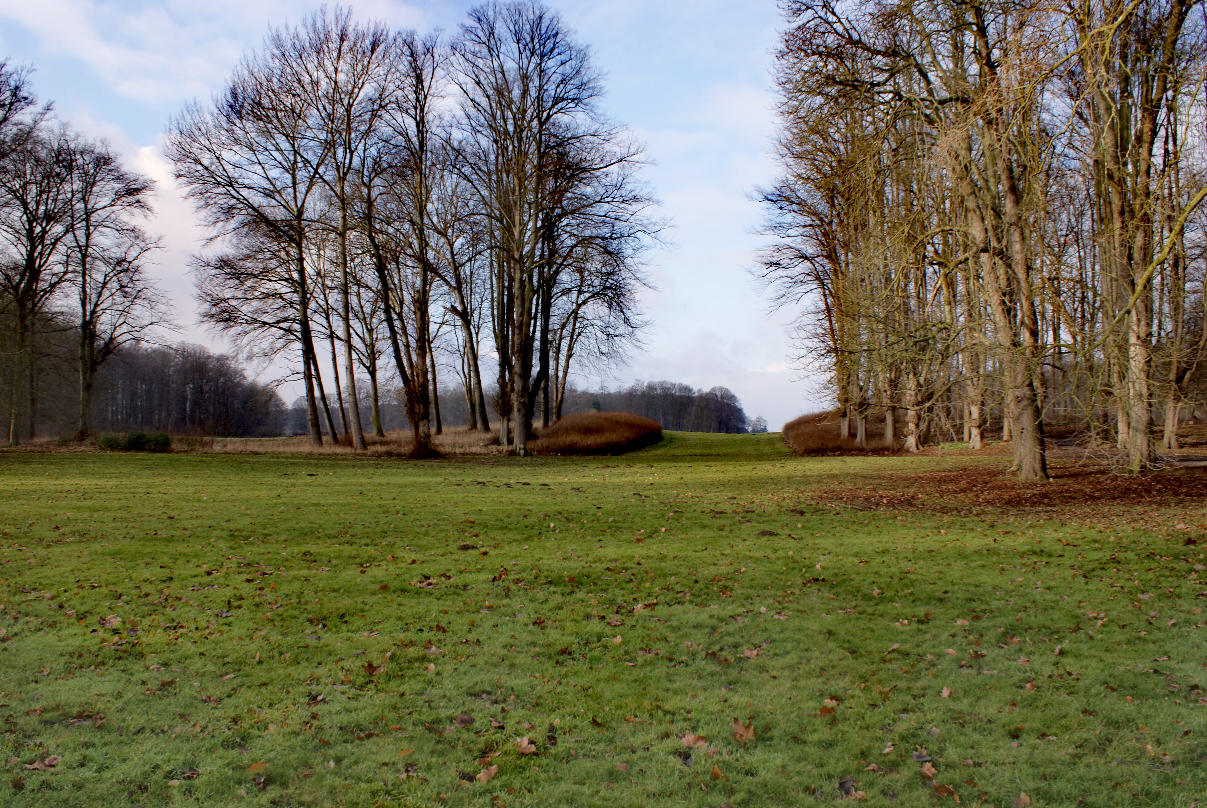 Gardens of Weißenhaus Manor